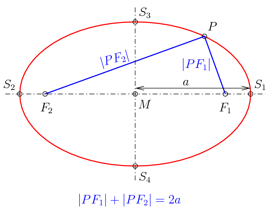 ellipse: definition